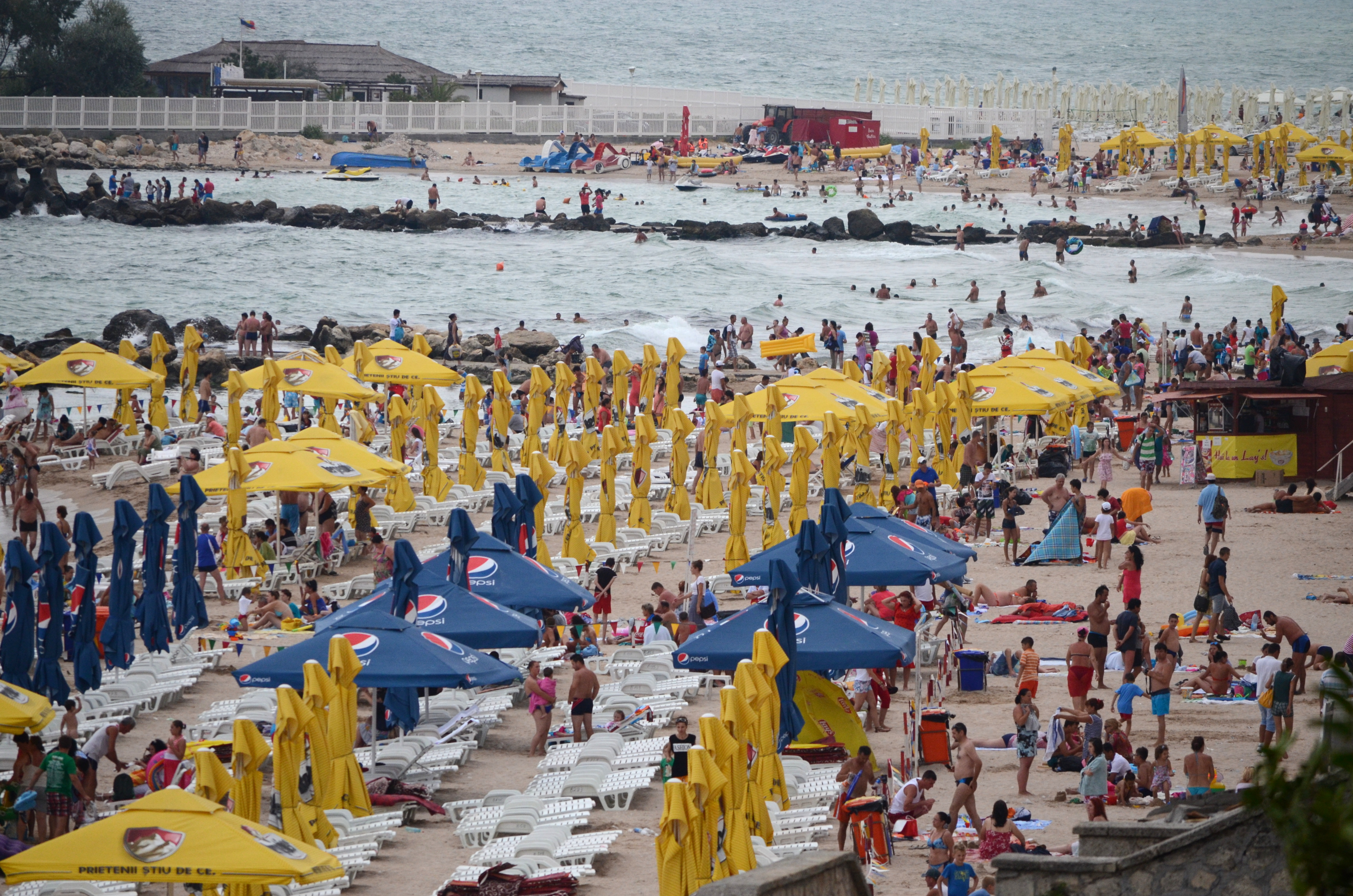 Eforie Nord Beach